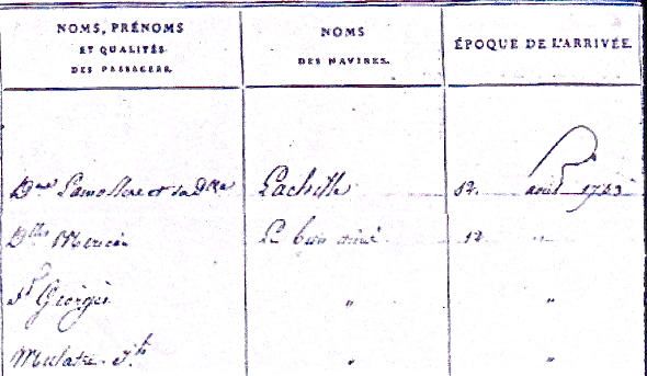 St. Georges and his son, "mulatto" Jh (Joseph) landing in France, August 7, 1753